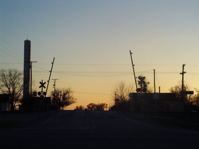 Buckholts railroad crossing